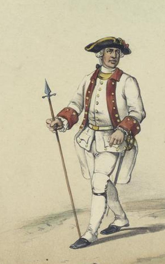 officer of spanish 'regimento de Lombardia'